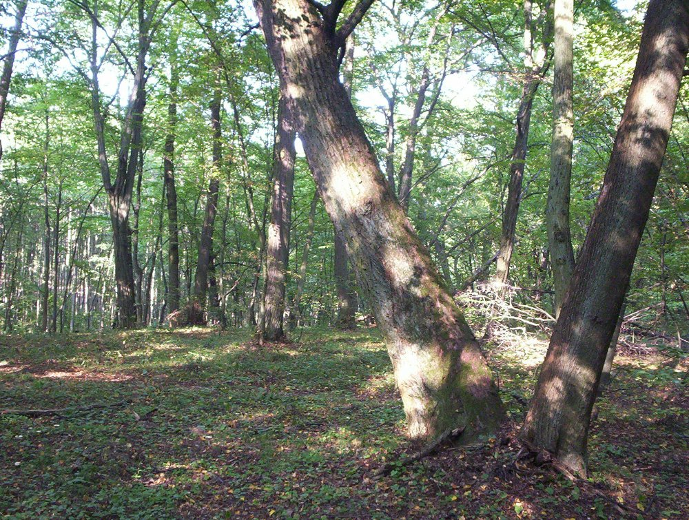 Forest in nature reserve Babsk, Poland.